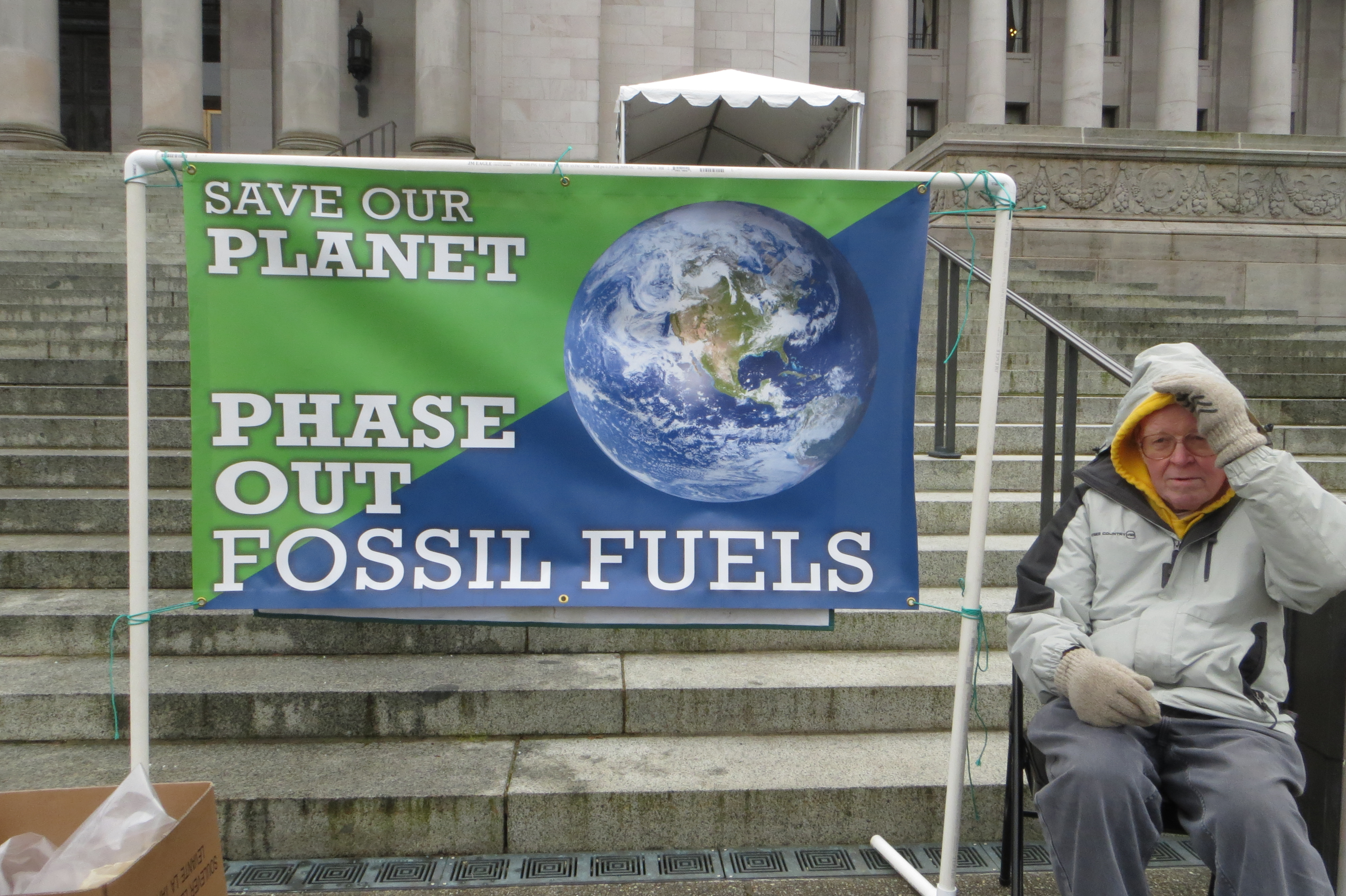 Protest at the Legislative Building in Olympia, Washington. Ted Nation, activist for several decades, beside sign reading "Save our planet. Phase out Fossil Fuels"